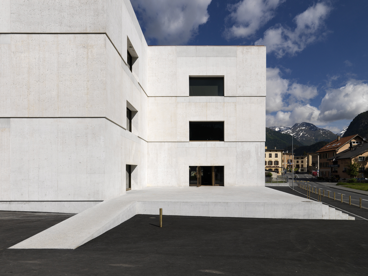 Visiting Center Swiss National Parc, Zernez, Switzerland. Architect: Valerio Olgiati, 2008